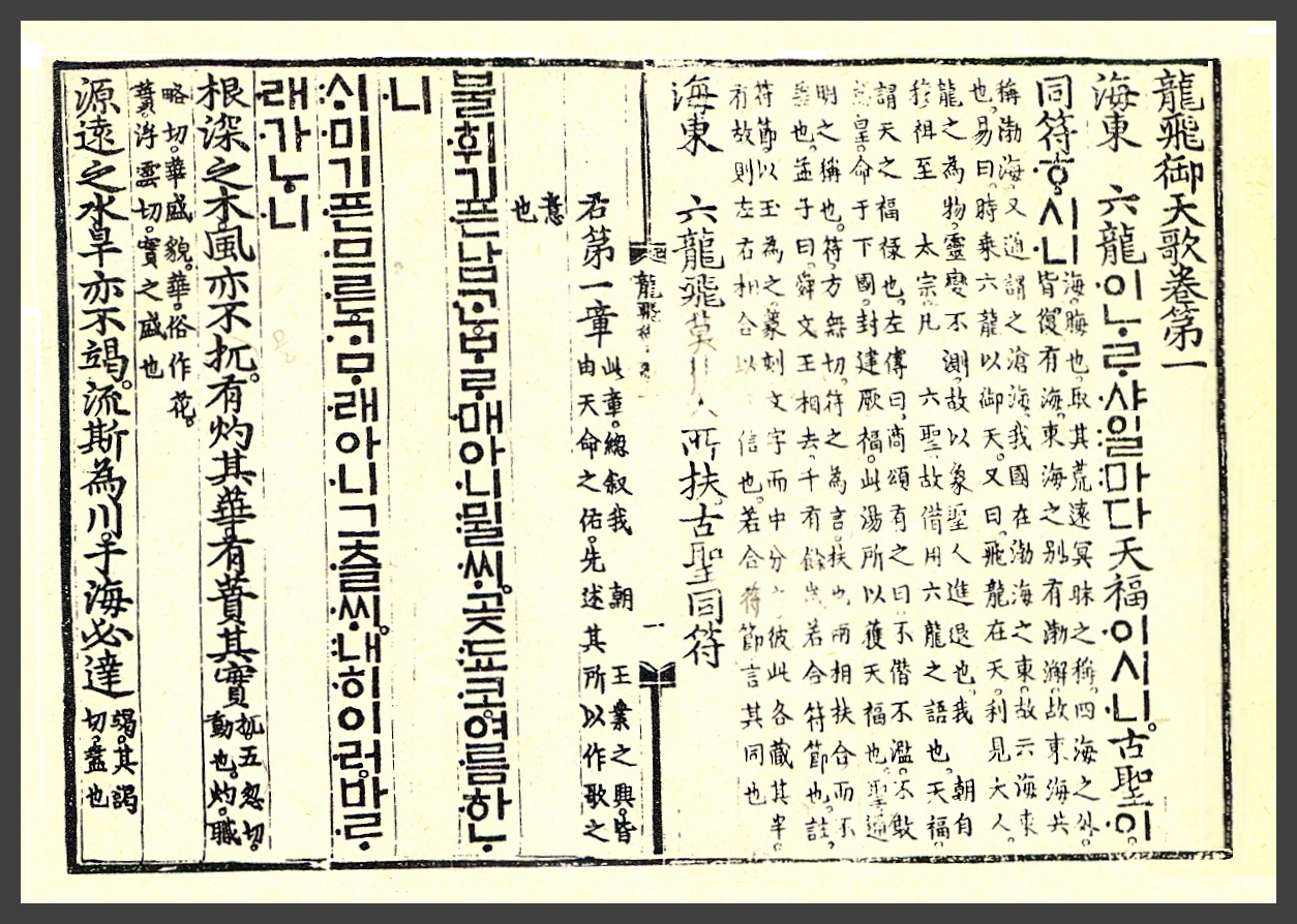 The book, Yongbieocheonga published in 1447.